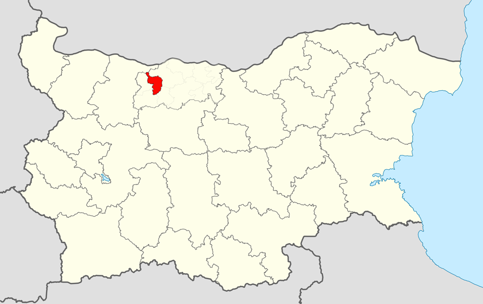 Location map of Iskar Municipality within Pleven Province, Bulgaria. Equirectangular projection, N/S stretching 130 %. Geographic limits of the map: N: 44.4° N S: 41.1° N W: 22.1° E E: 28.9° E